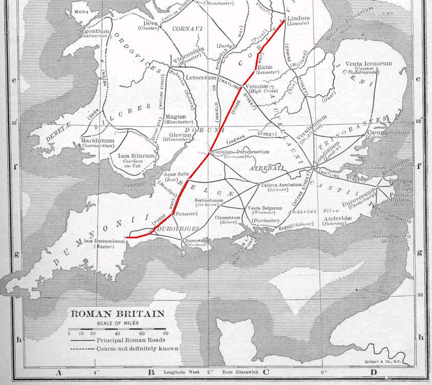 Derived from :Image:Romanbritain.jpg. Fosse Way